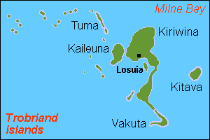 Map (rough) of Trobriand islands, Papua New Guinea, own work composed from various mapreferences